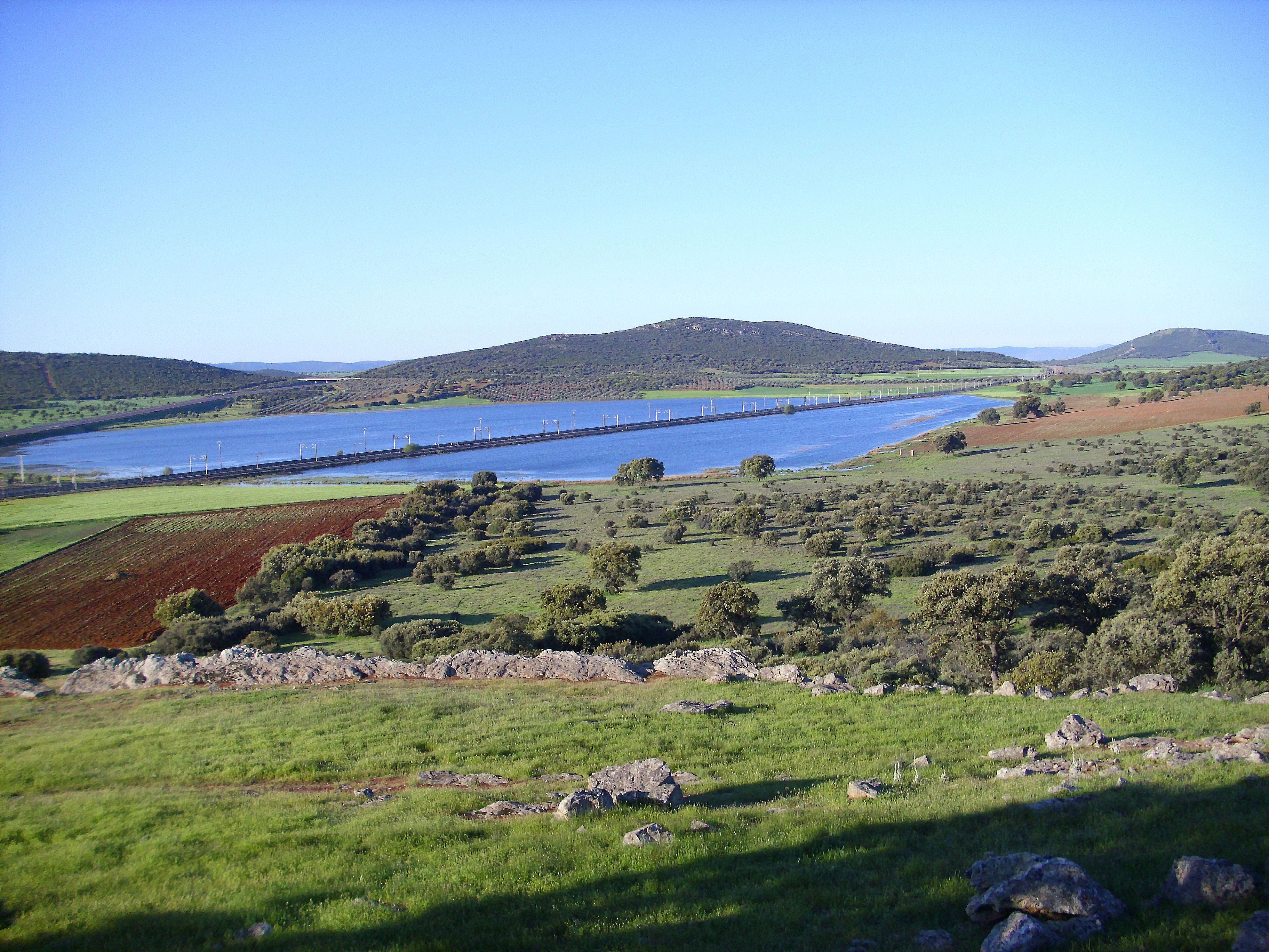 "Laguna de Cañada de Calatrava" crossed by the line of the train "AVE" and the Puertollano-Ciudad Real speedway, Campo de Calatrava, Spain